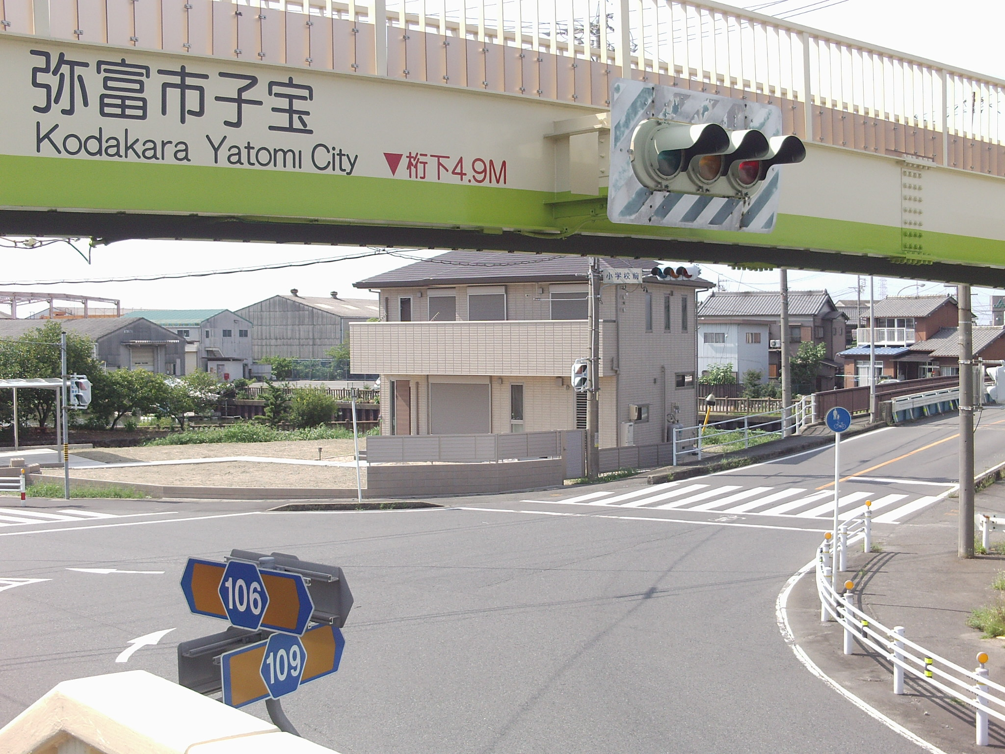 Aichi prefectural road No.109 in Kodakara, Yatomi, Aichi.